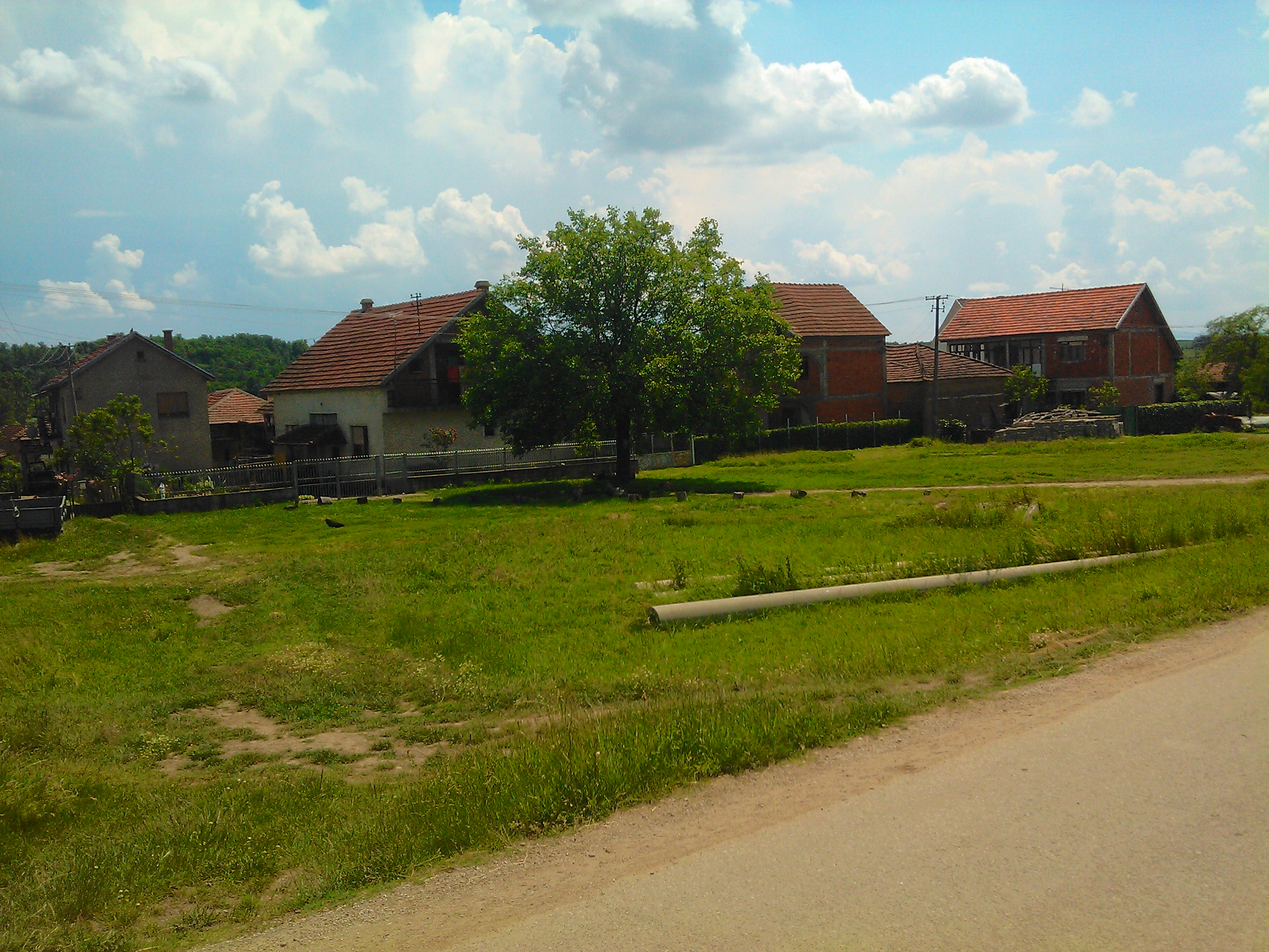 Selo Jašunja